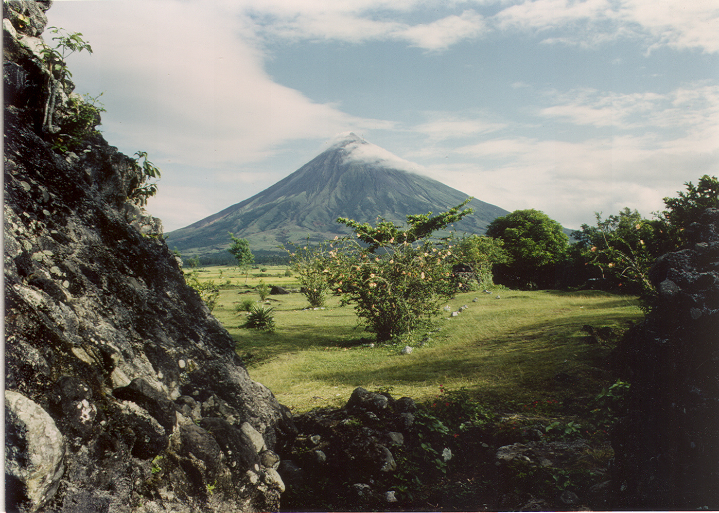 Location: Philippines Date: 1984 Photographer: Randy C. Bunney Mayon Volcano overlooks a pastoral scene some five months before the volcano's violent eruption in September 1984. Ruins from a nearby church destroyed in an 1814 eruption are visible in the foreground. One of the climbing approaches to the 2,462 meter Mayon Volcano begins on the northwest slope near the Philippine Institute of Volcanology and Seismology research station.